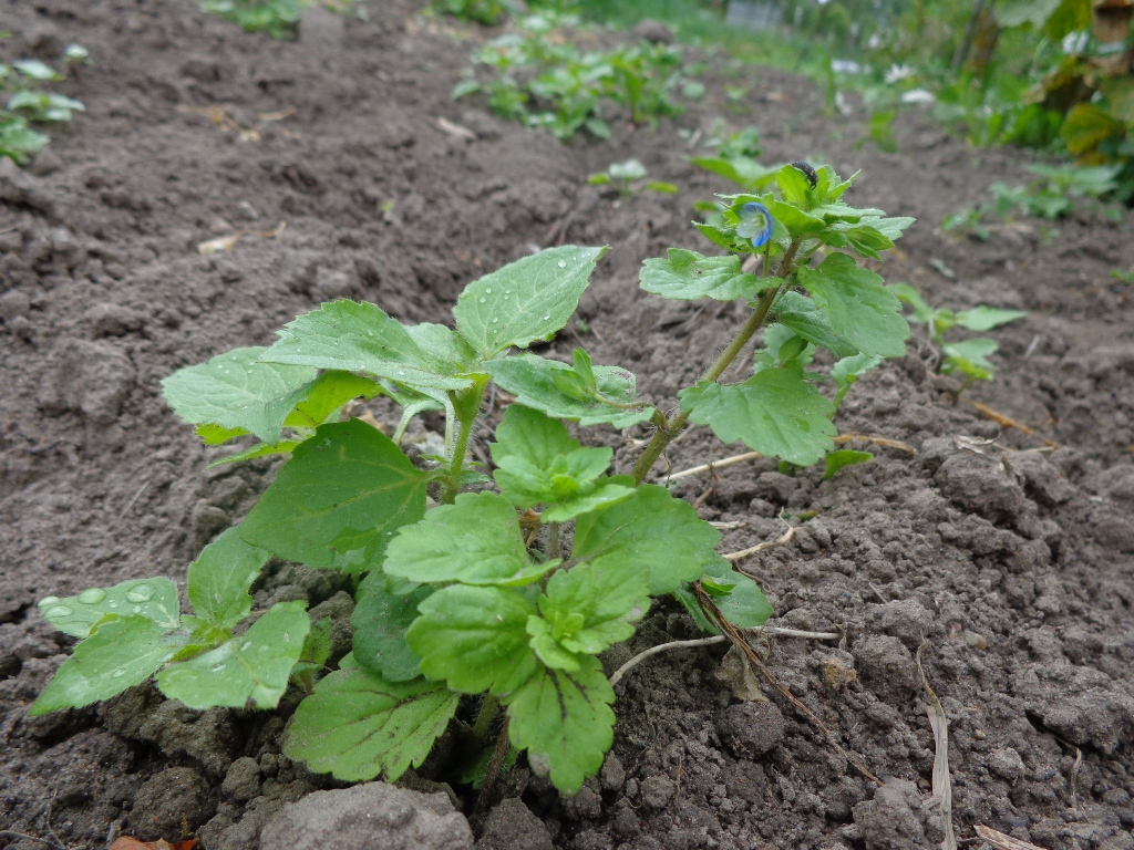 Veronica opaca. Found in Latvia.